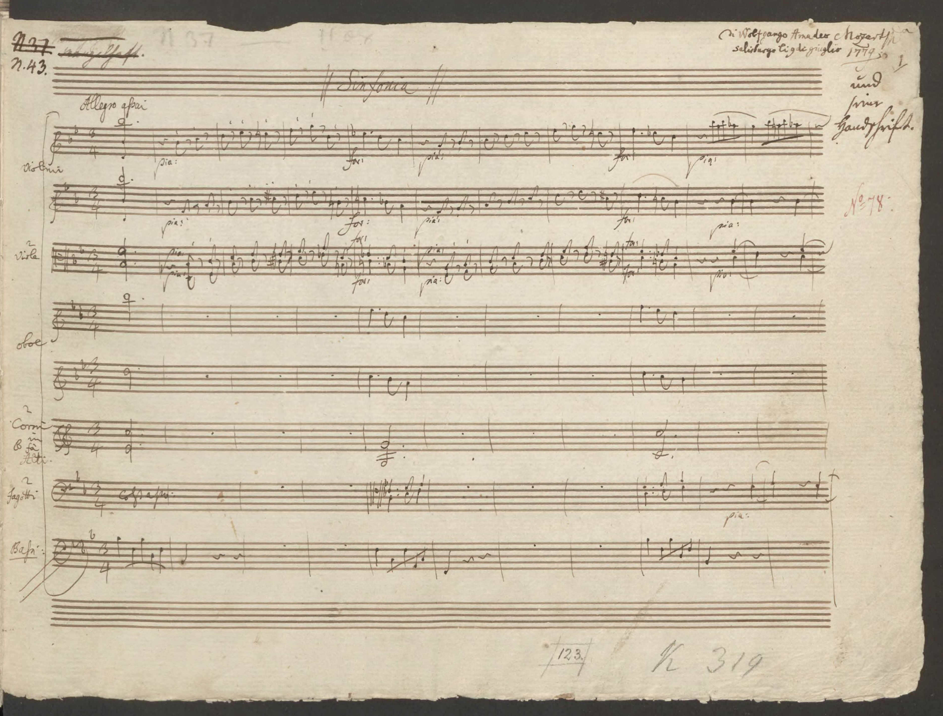 The opening of the autograph manuscript of Mozart's Symphony No.33 in Bb Major, K.319. Preserved today at the Biblioteka Jagiellońska, Kraków.